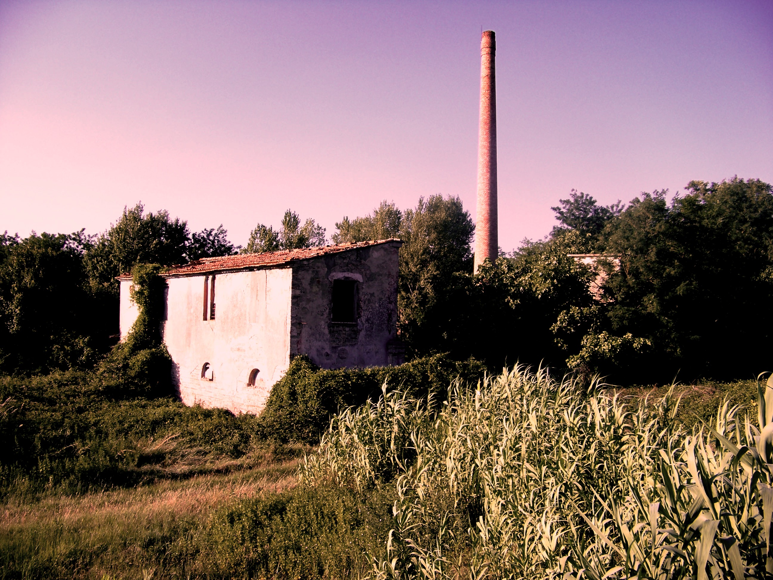 The old paper mill, La Borra - Pontedera (Pisa)